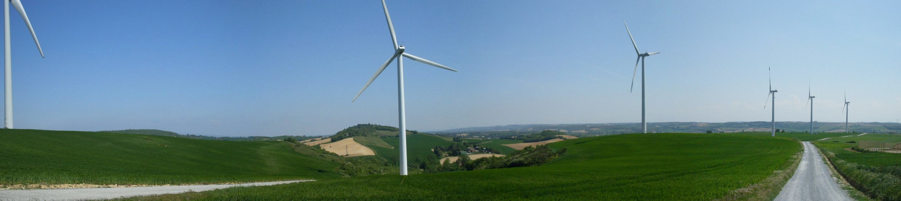 Wind field near Avignonet-Lauragais, FRANCE.